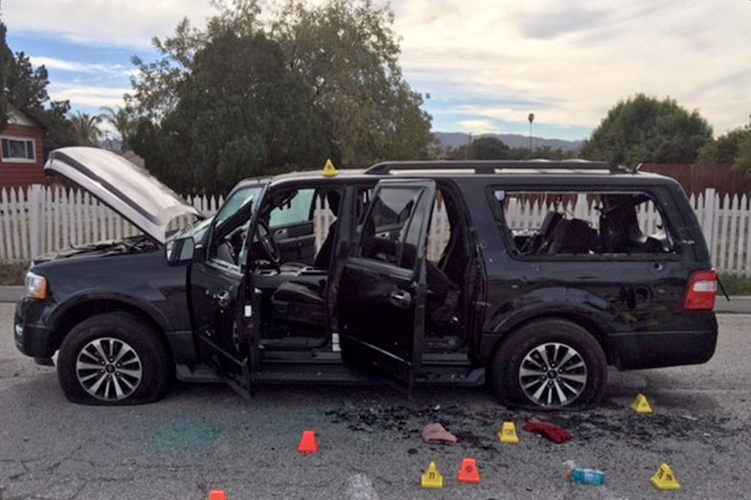 The suspect's vehicle involved in a shootout with the police, in the 2015 San Bernardino shooting].